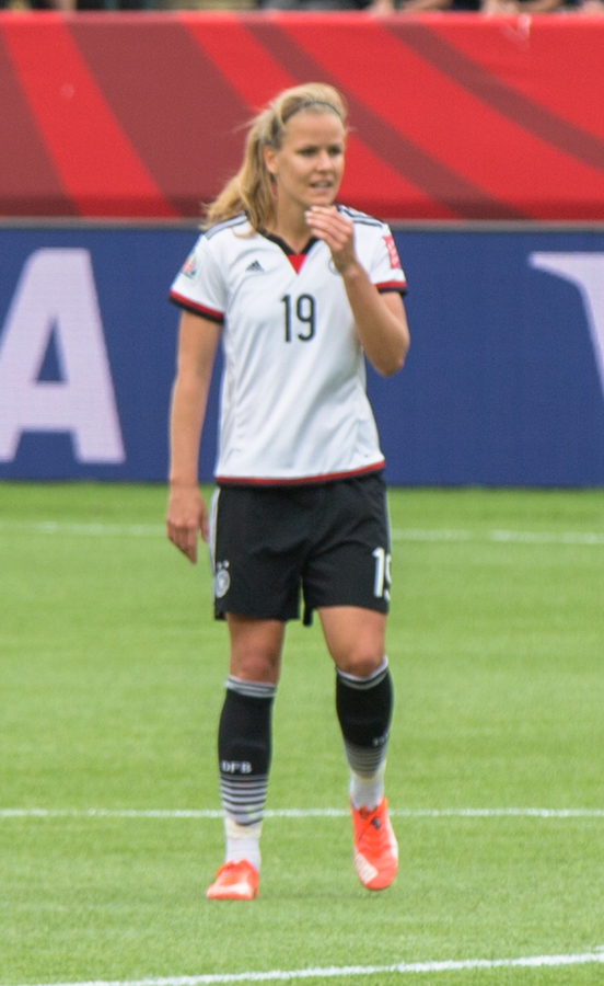 FIFA Women's World Cup Canada 2015 - Edmonton